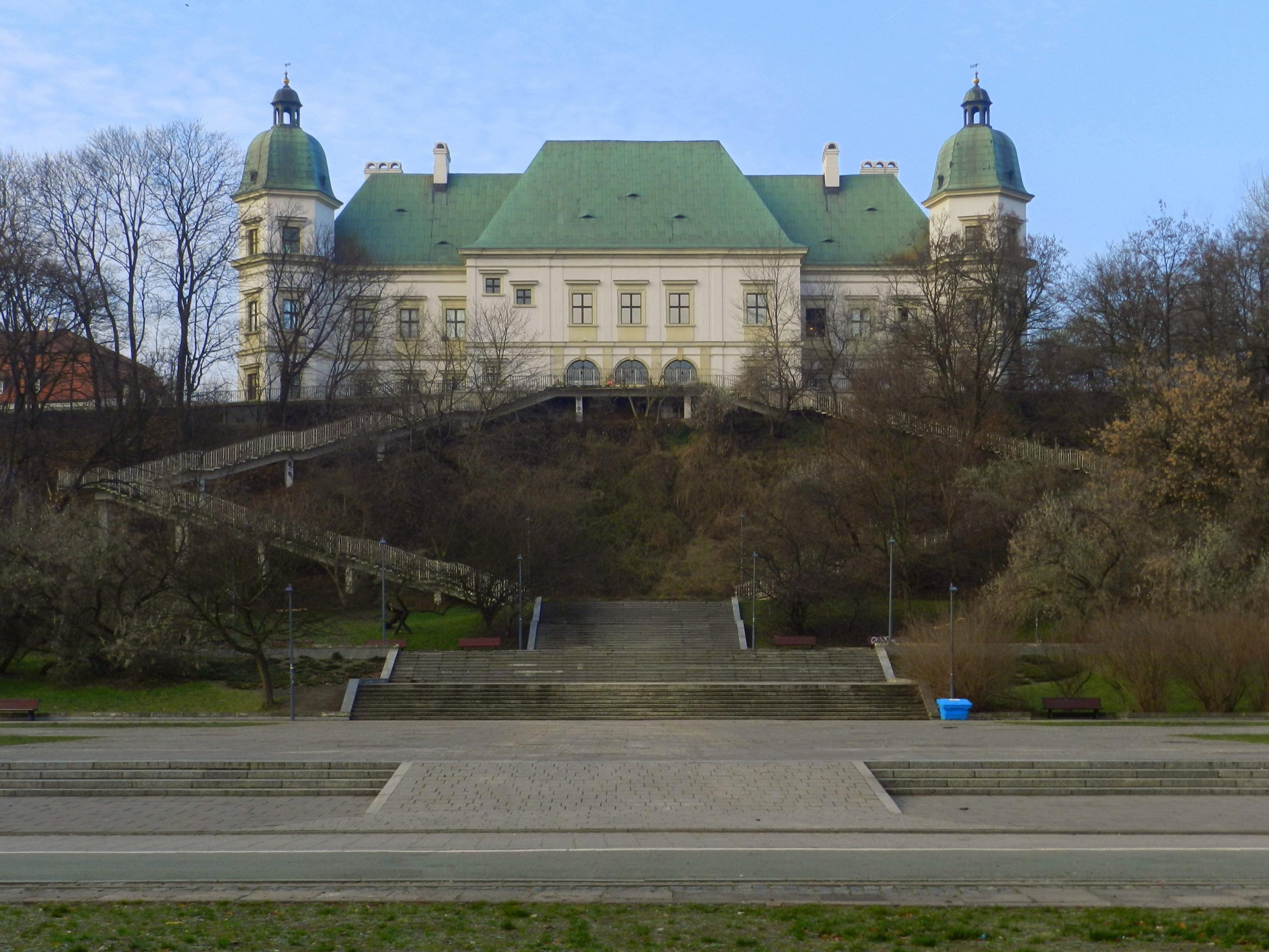 Ujazdów Castle in Warsaw